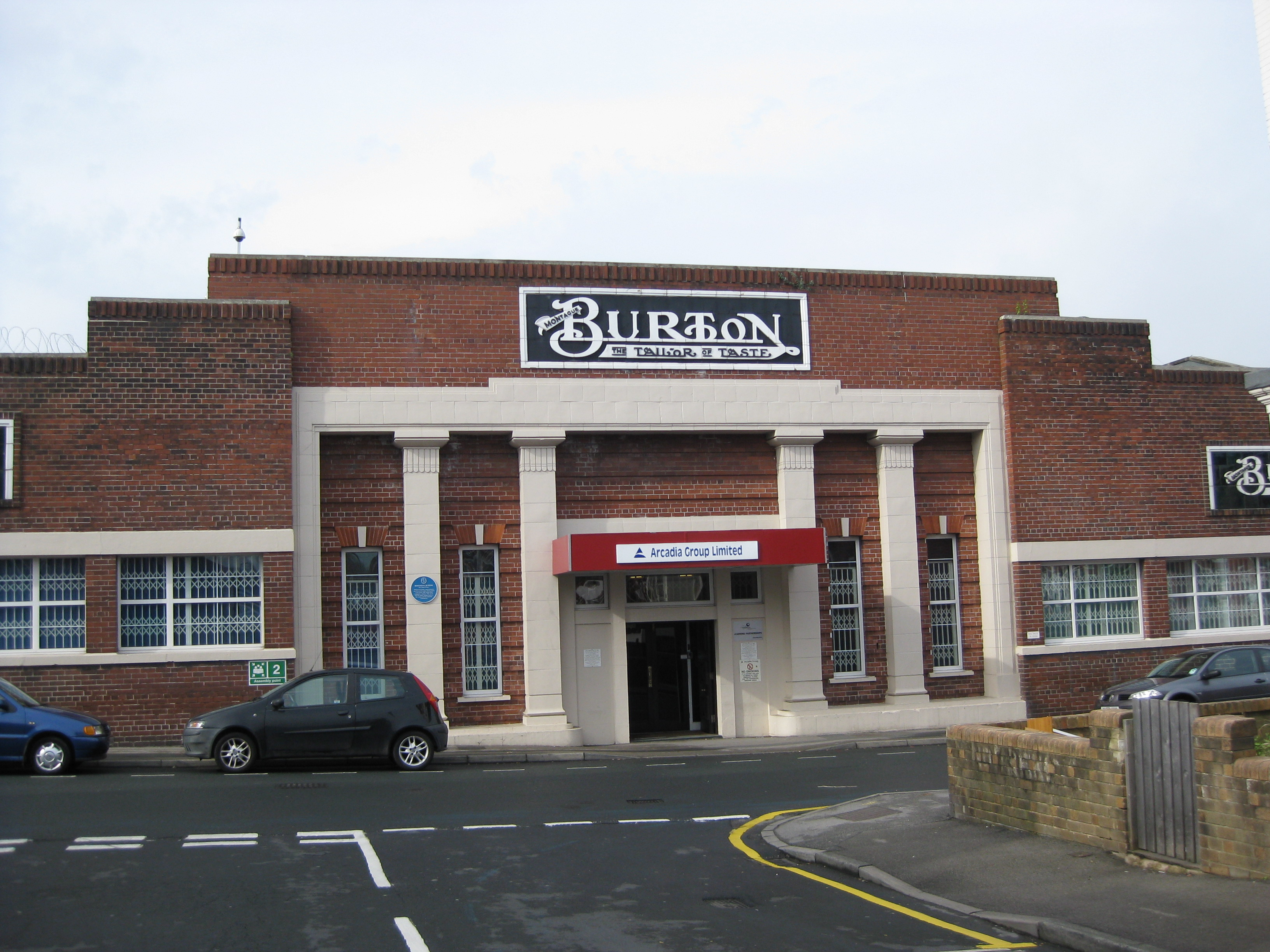 Burton's menswear factory Leeds (now owned by Arcadia) viewed from Brown Hill Avenue